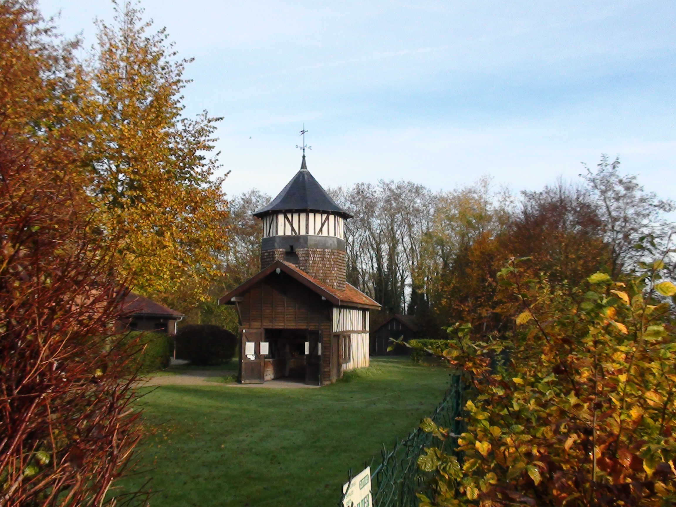 Sainte Marie du Lac Nuisement - old oven in the Der village museum